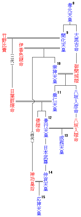 Family tree of the emperor of Japan, from 8th to 15th 天皇家系図 8代～15代